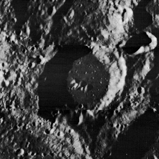 Oblique view of Orlov, on the far side of the moon.